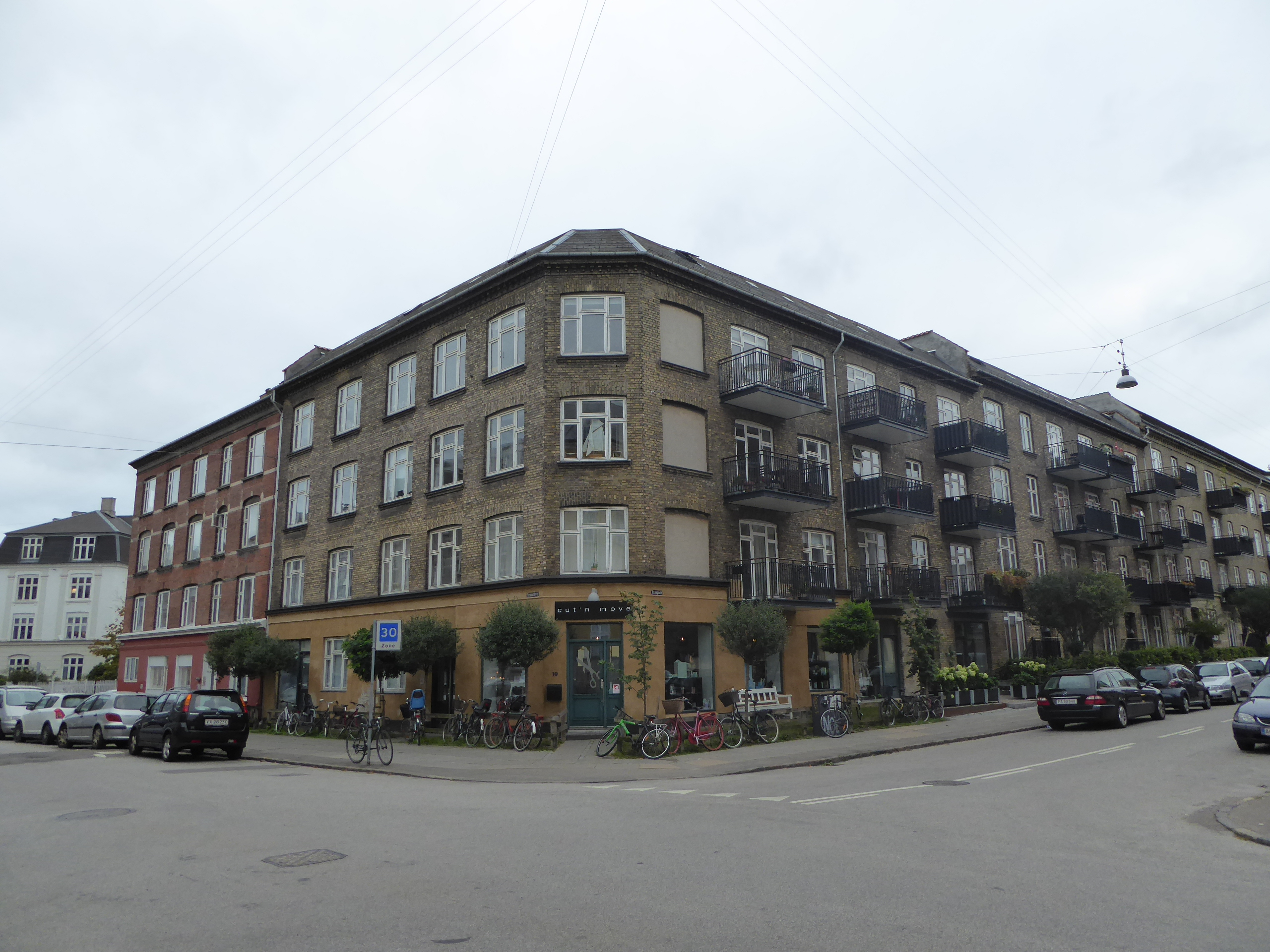 Apartment building at the corner of Nygårdsvej and Fanøgade in Østerbro in Copenhagen.